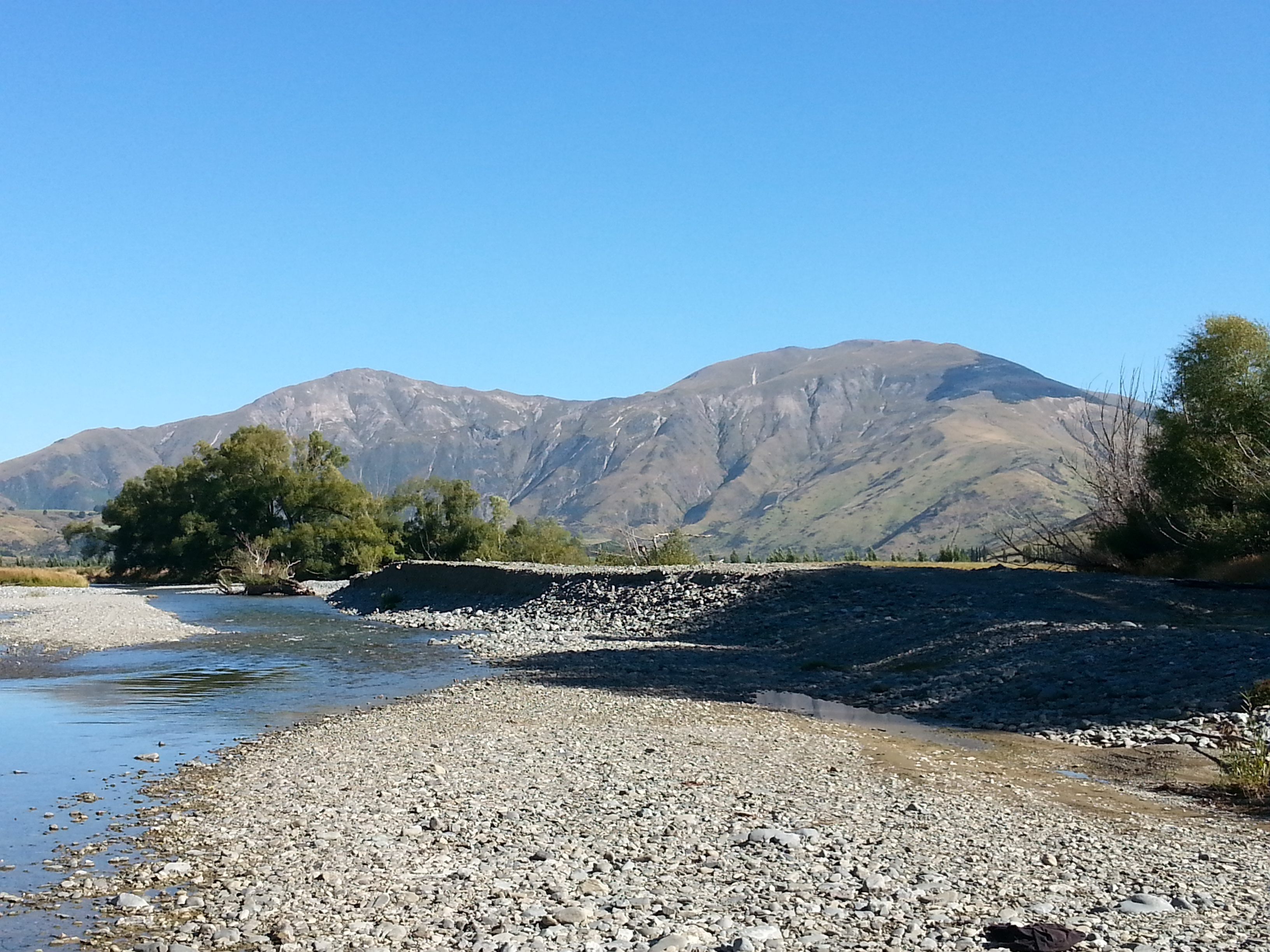 The Eyre Creek near Athol with the Mid Dome in the background. February 2014.